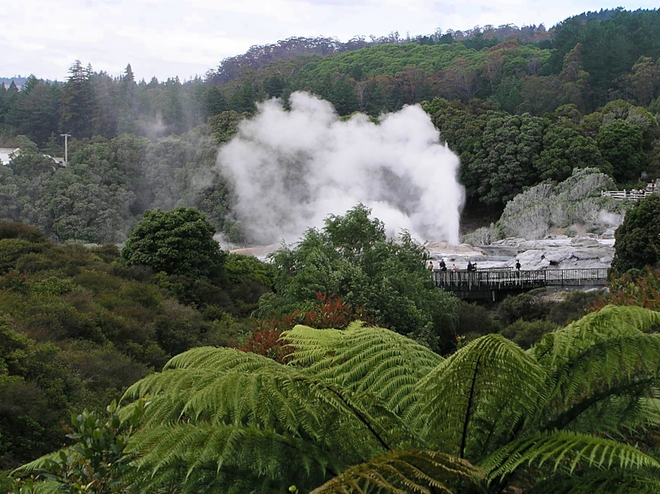 The Pohutu and Prince of Wales Feathers Geysers at Whakarewarewa, Rotorua, New Zealand.